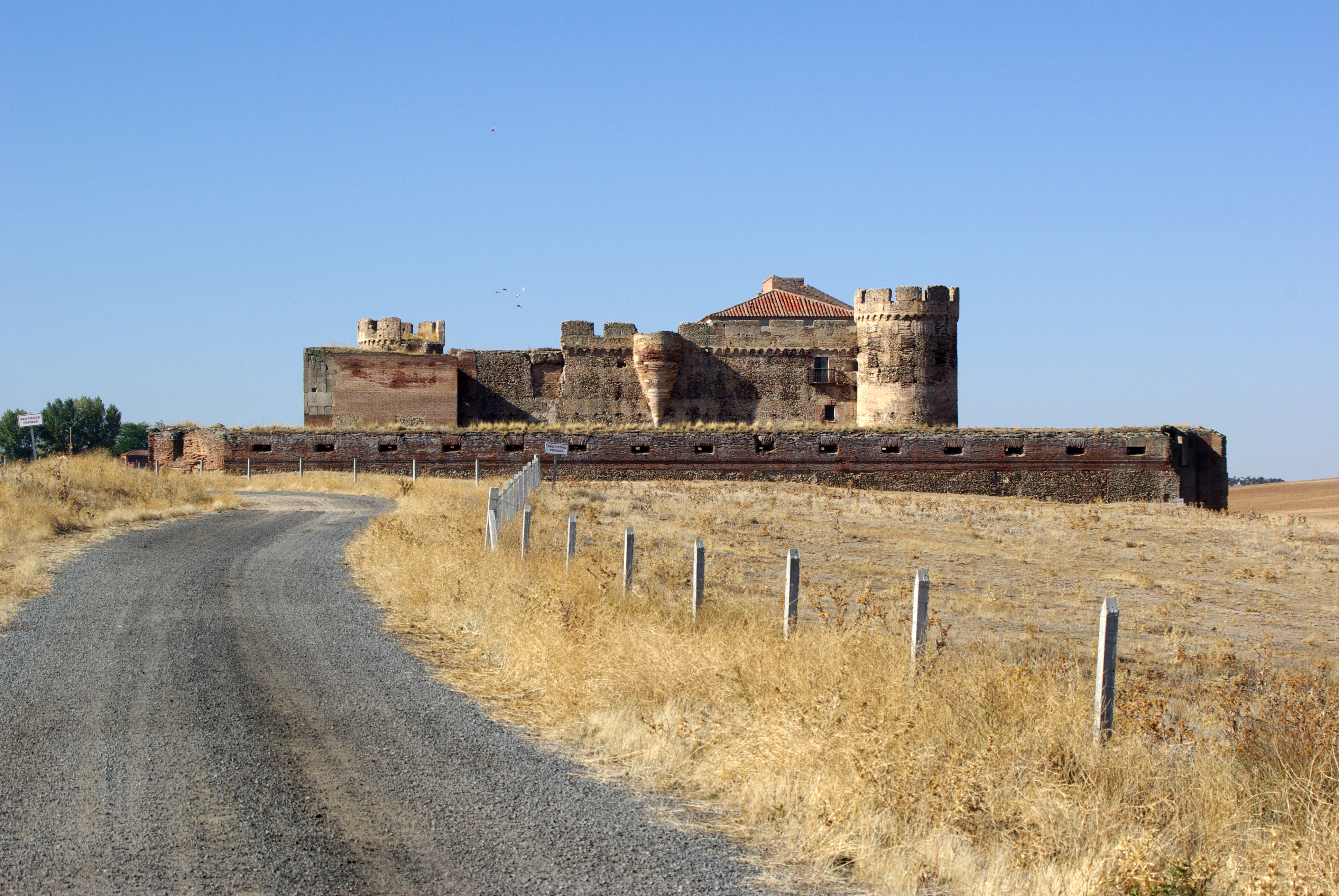 Castle or palace of Castronuevo in Rivilla de Barajas (Ávila, Spain).